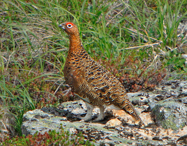 This bird was observed near a glacial lake at White pass summit on the Alaska / Yukon Territory border near the town of Fraser.